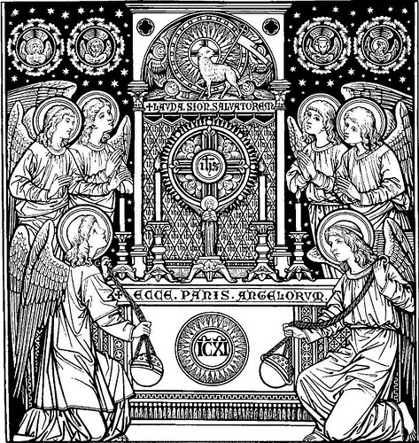 "Ecce panis angelorum" (from "Lauda Sion"), illustration